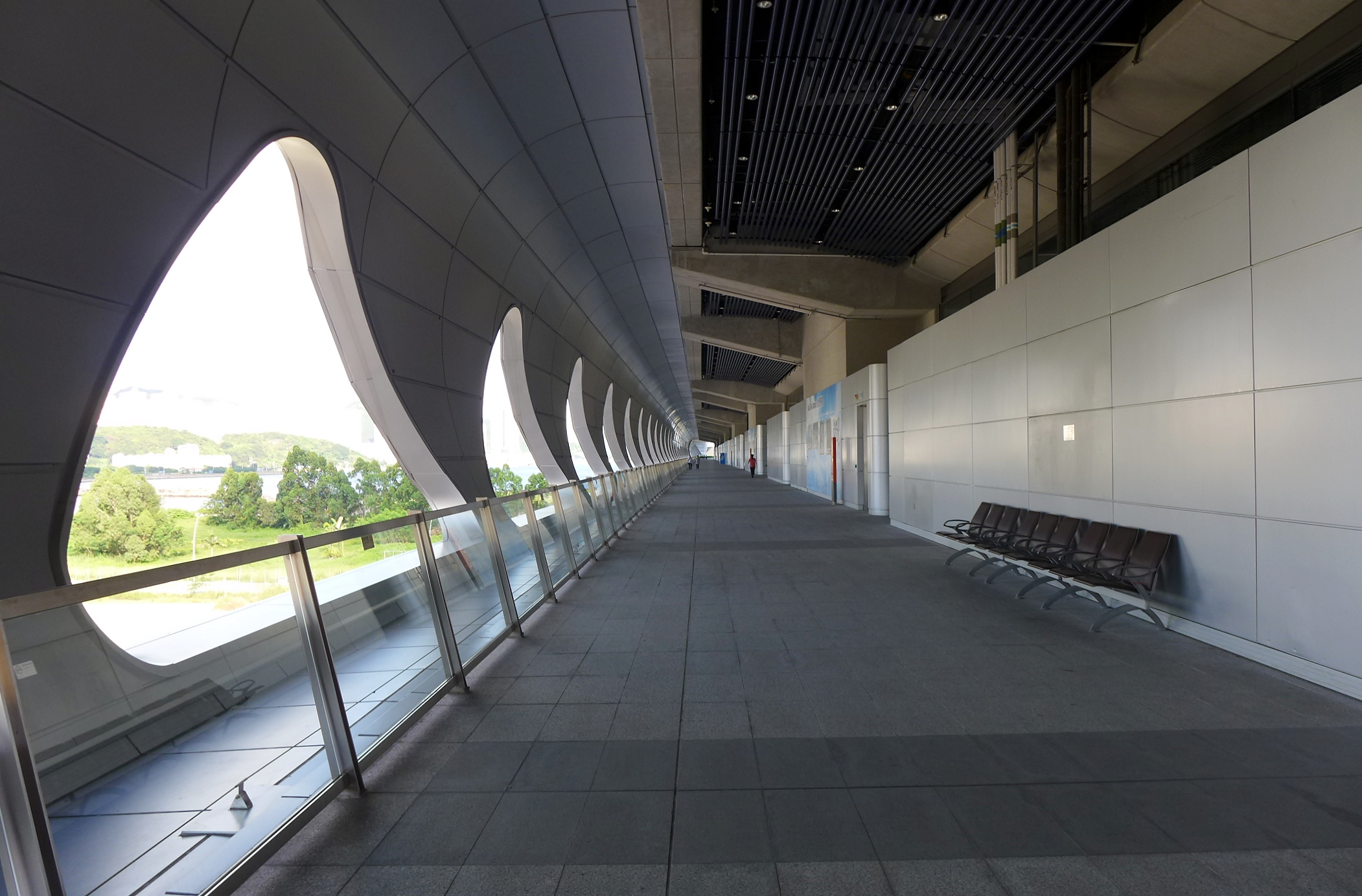 Kai Tak Cruise Terminal Level 2 outside access